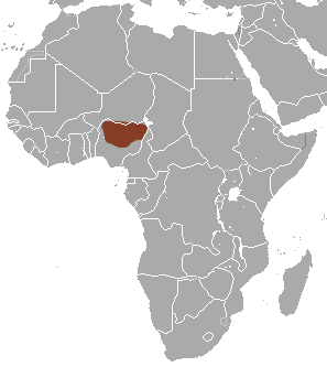 Flat-headed Shrew (Crocidura planiceps) range